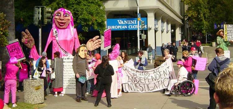 Cropped and resized photo by User:Maveric149. Photo taken at Arnold Schwarzenegger's inauguration on November 17, en:2003. Image released under the GNU FDL.